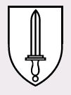 Wappen des Coburger Convents